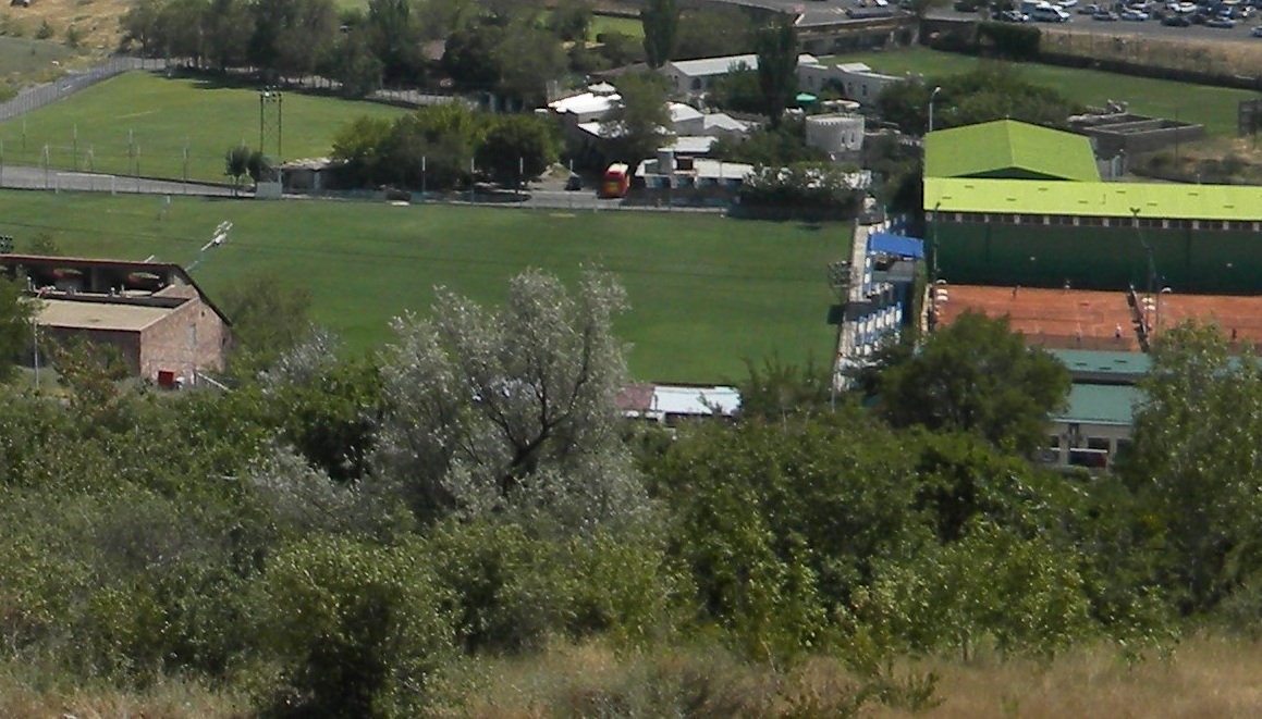 Pyunik Stadium, Yerevan, Armenia.